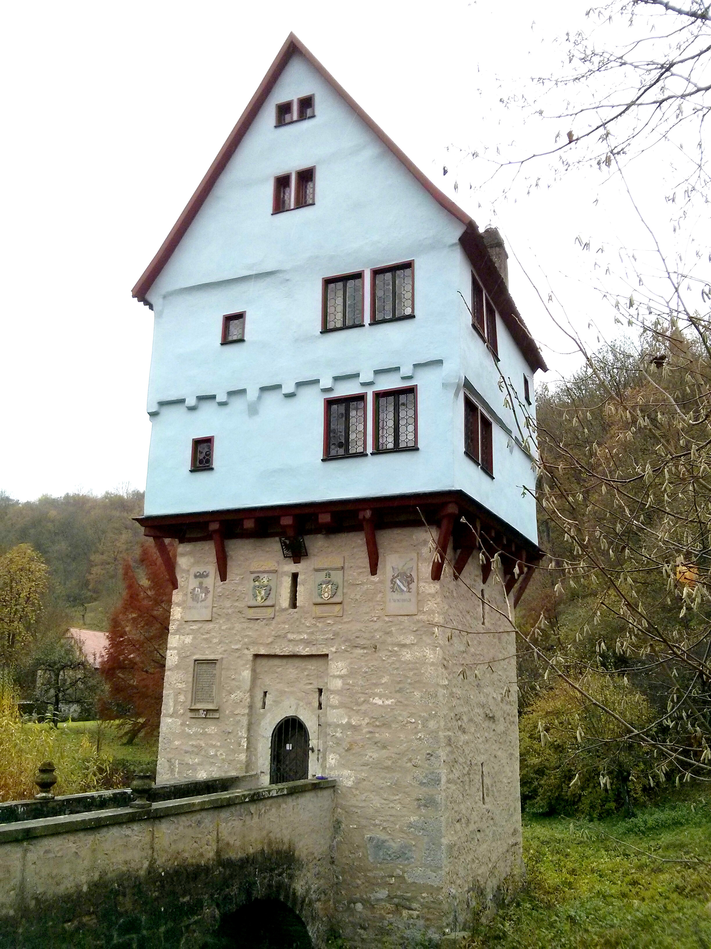 Topplerschlösschen (Topplers small castle) at isolated place Fuchmühle, Rothenburg ob der Tauber, Bavaria, Germany